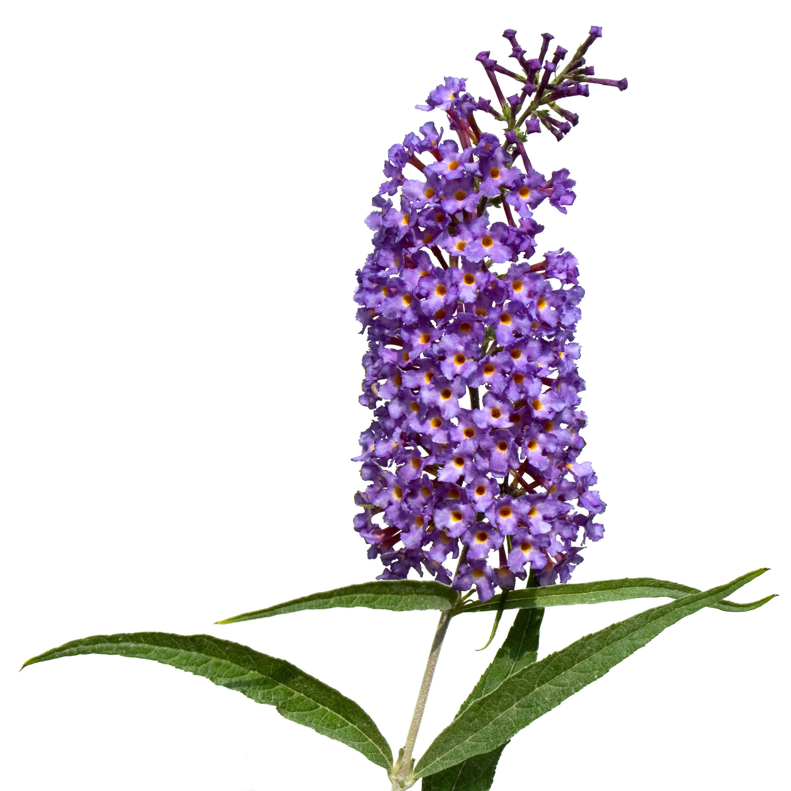 Buddleja Davidii flowers with white background